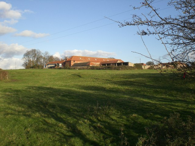 Waterden Farm Part of the Holkham Estate.